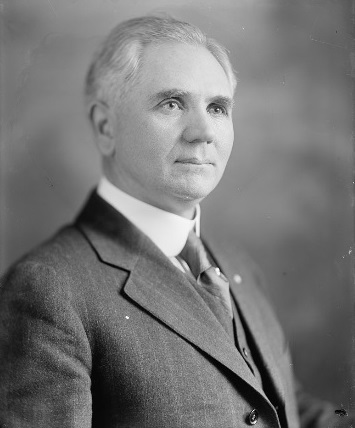 Ewin L. Davis (Tennessee Congressman)